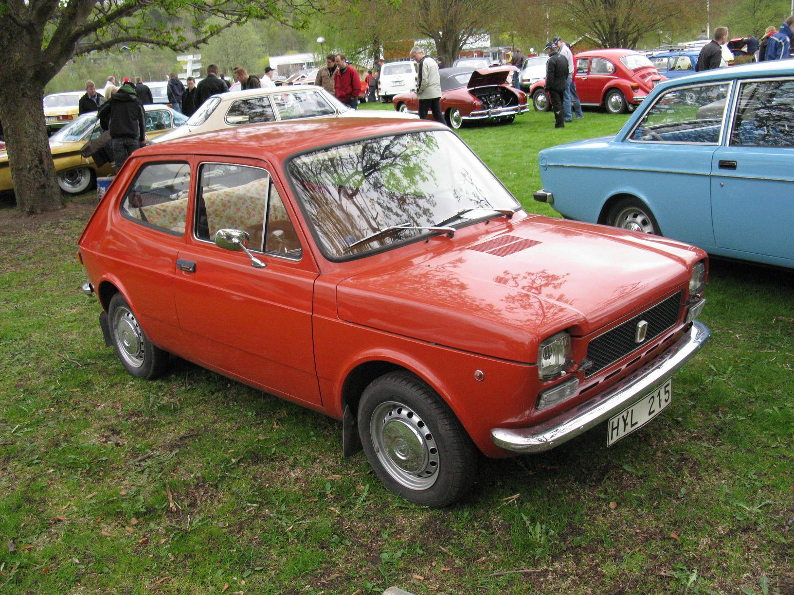 Fiat 127